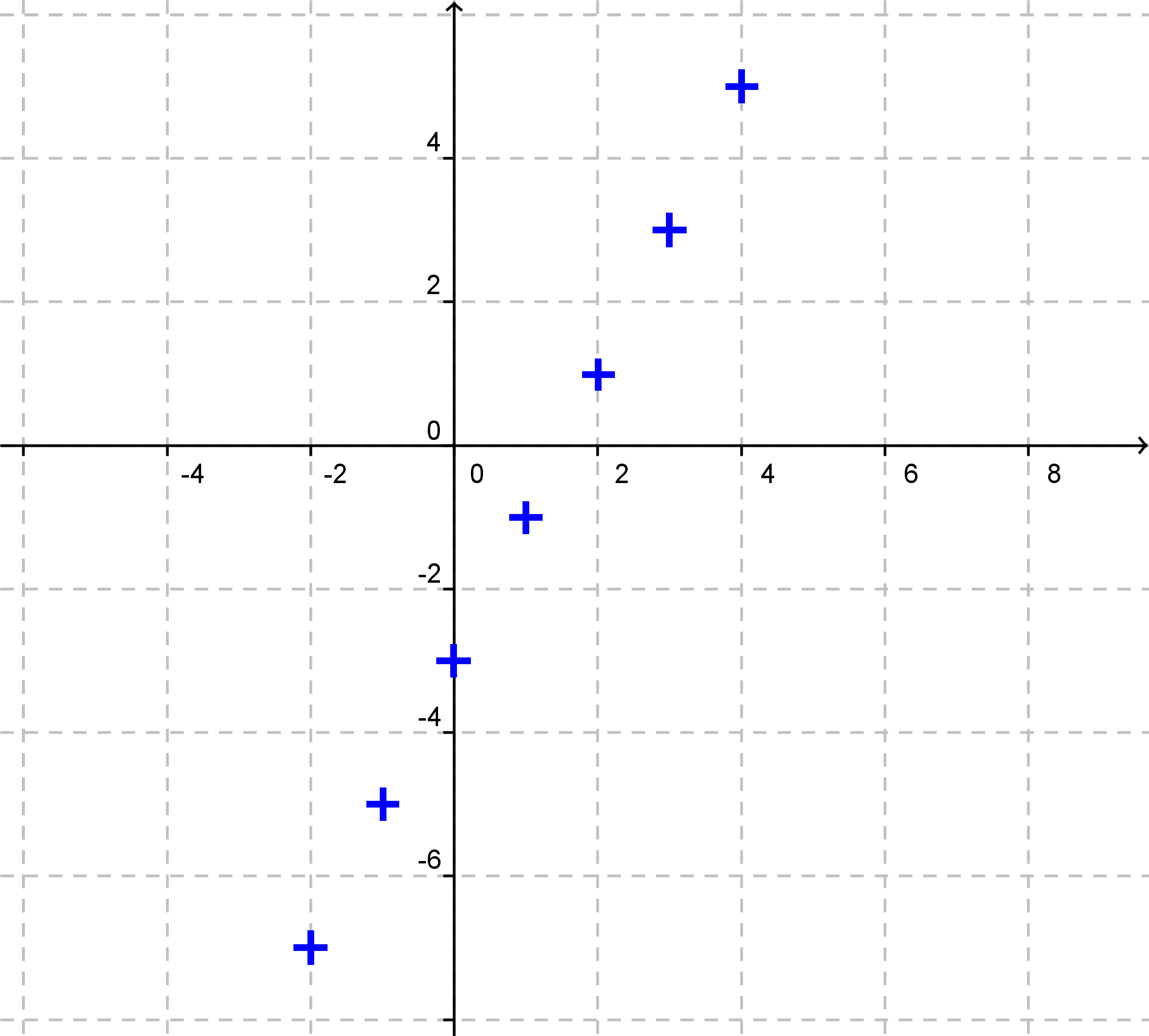 Plots a graph for some points of y = 2x - 3